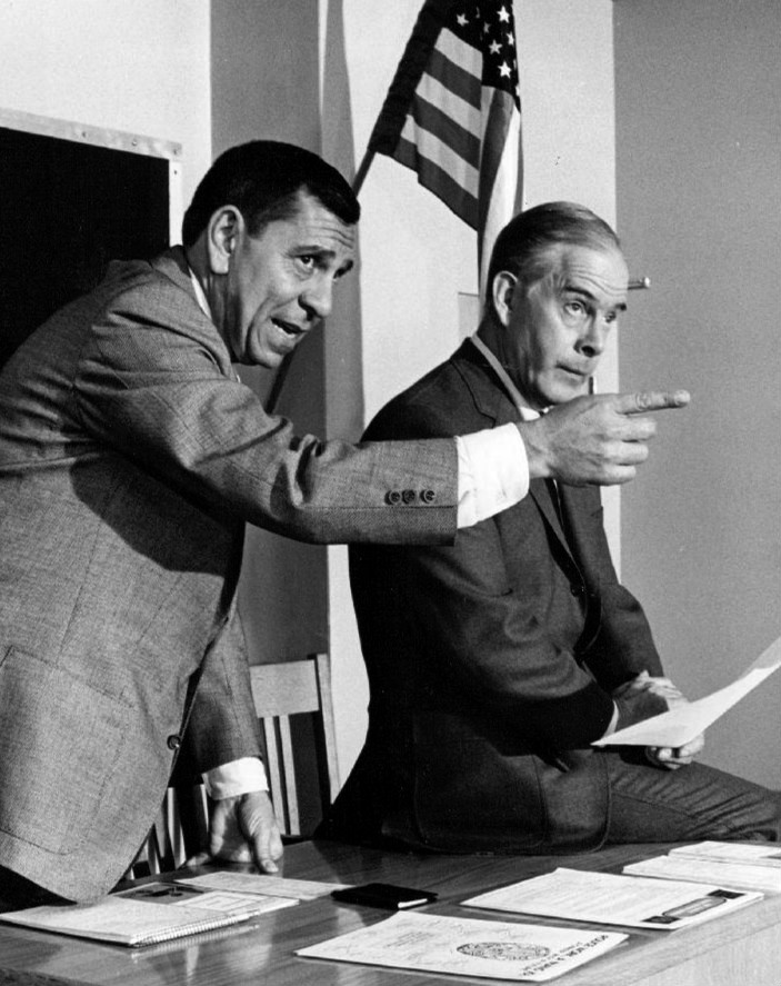 Photo of Jack Webb and Harry Morgan from the television program Dragnet. The caption associates the photo with the episode "Community Relations (DR-10)".